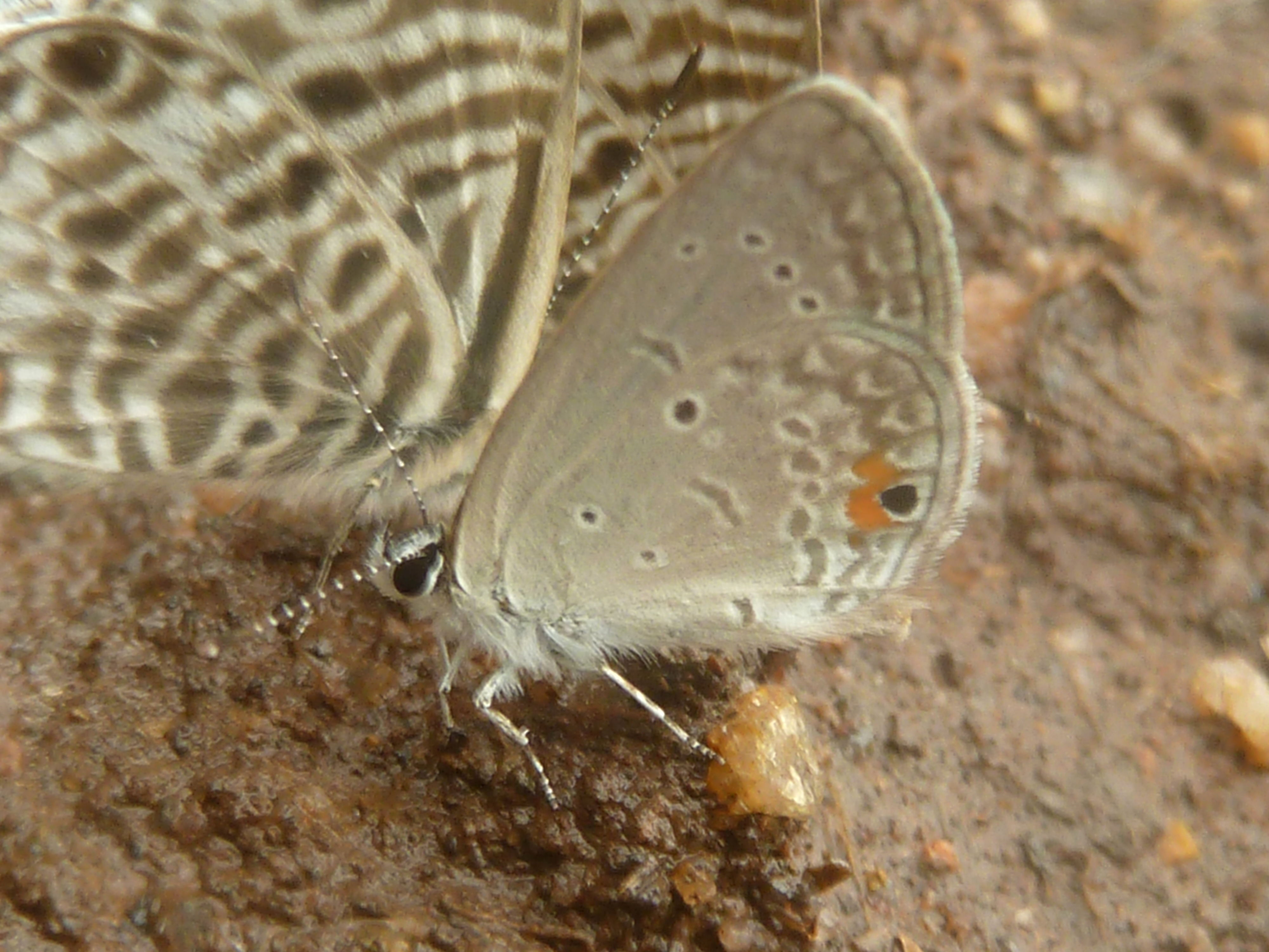 Northern cupreous blue (Eicochrysops messapus mahallakoeana) mud-puddling, i.e. sipping diluted minerals from wet soil and rock